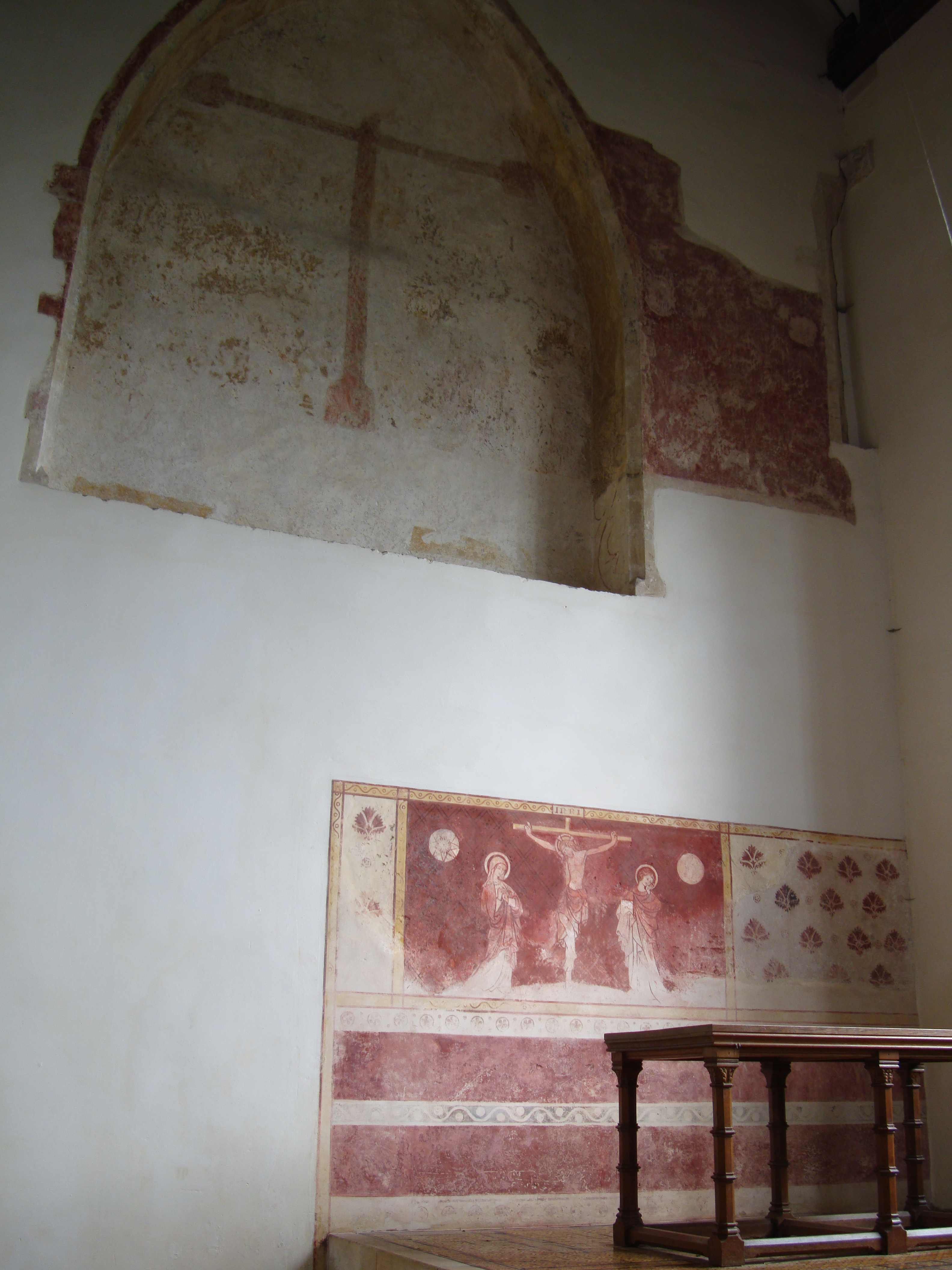 Photograph of Dorchester Abbey, Oxfordshire, United Kingdom; frescoes